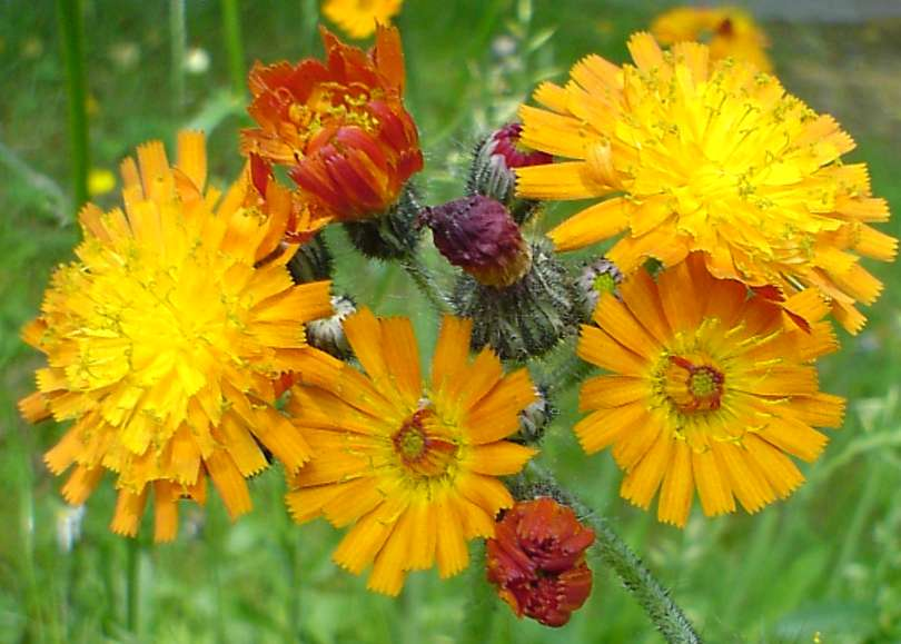 Orange Hawkweed (Hieracium aurantiacum) Photo taken by User:Ahoerstemeier with a Sony DSC-U10 in Hemer, Germany on June 1st, 2003.